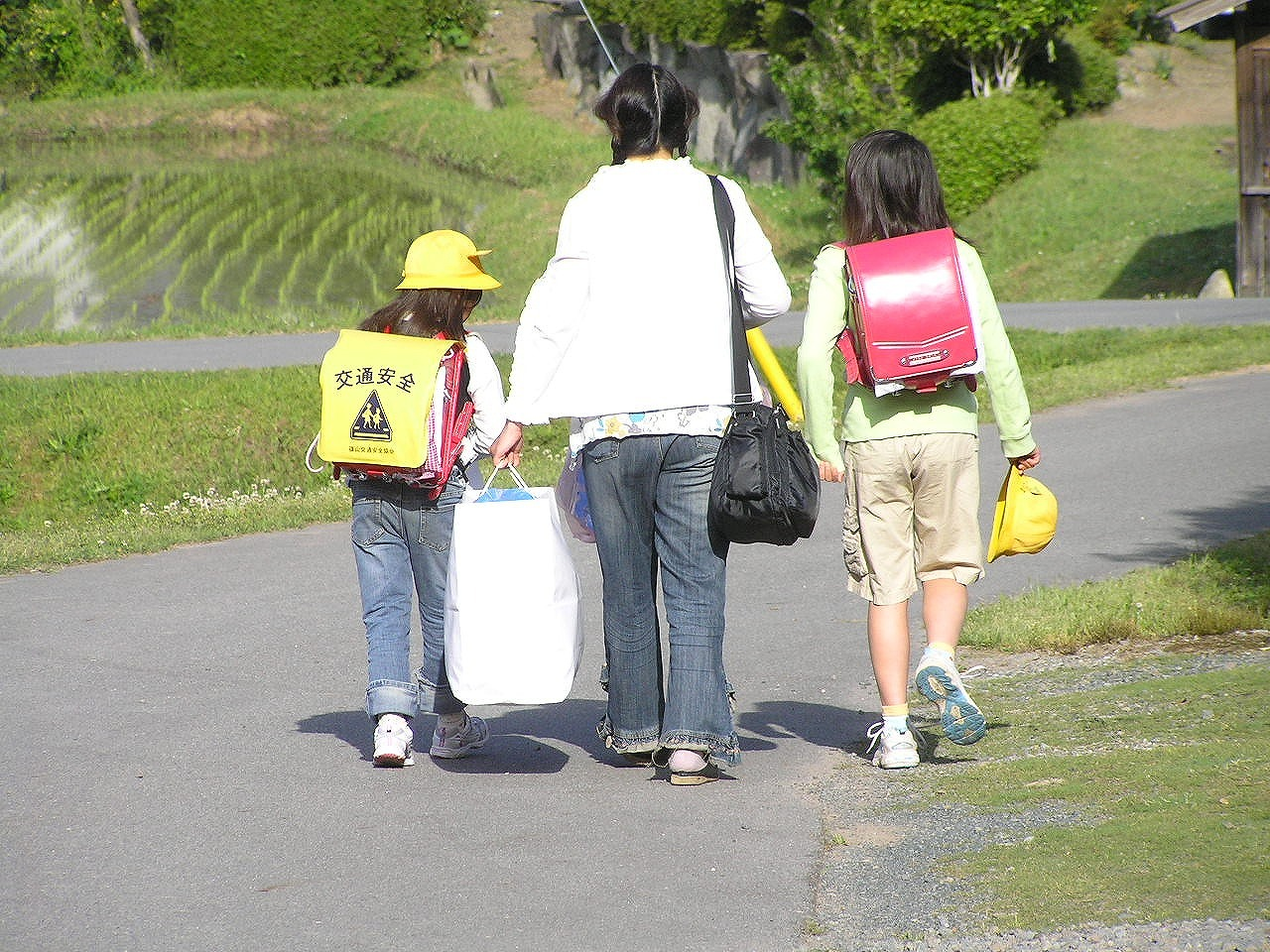 Primary school students in Japan are going to school.